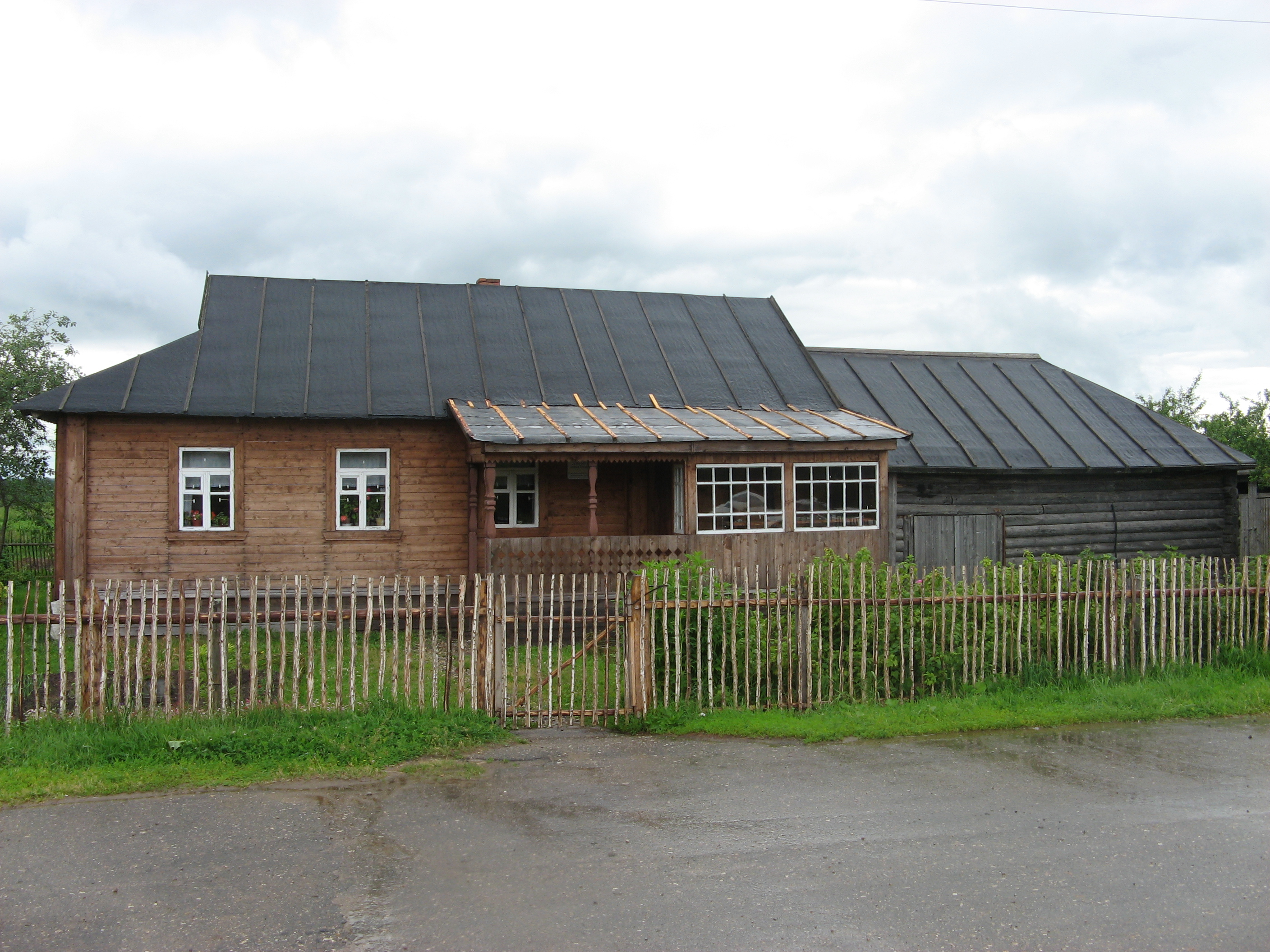 Yuri_Gagarin_parents_Home in Klushino